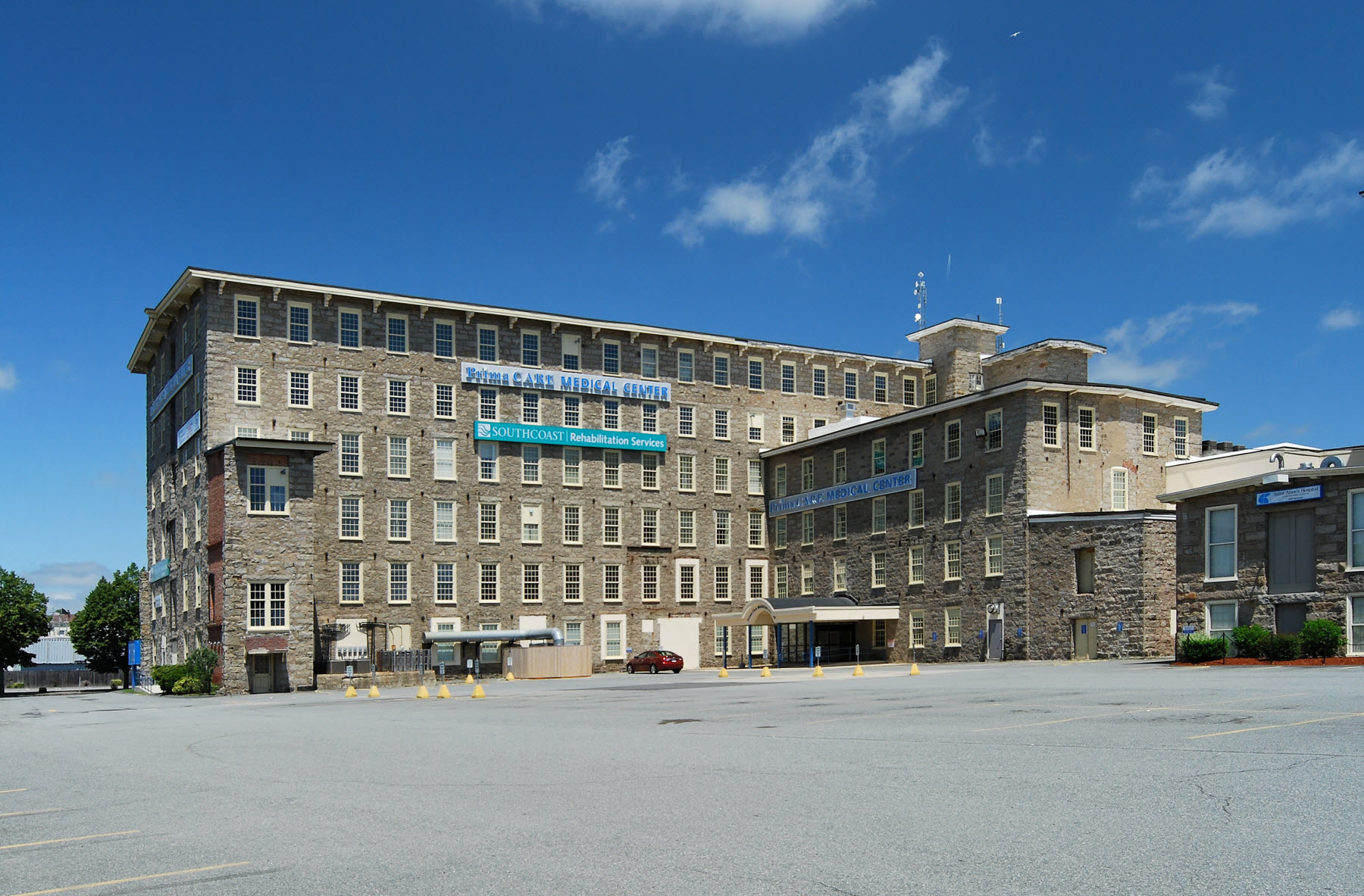 Union Mill No. 2, Fall River, Massachusetts (built 1865).